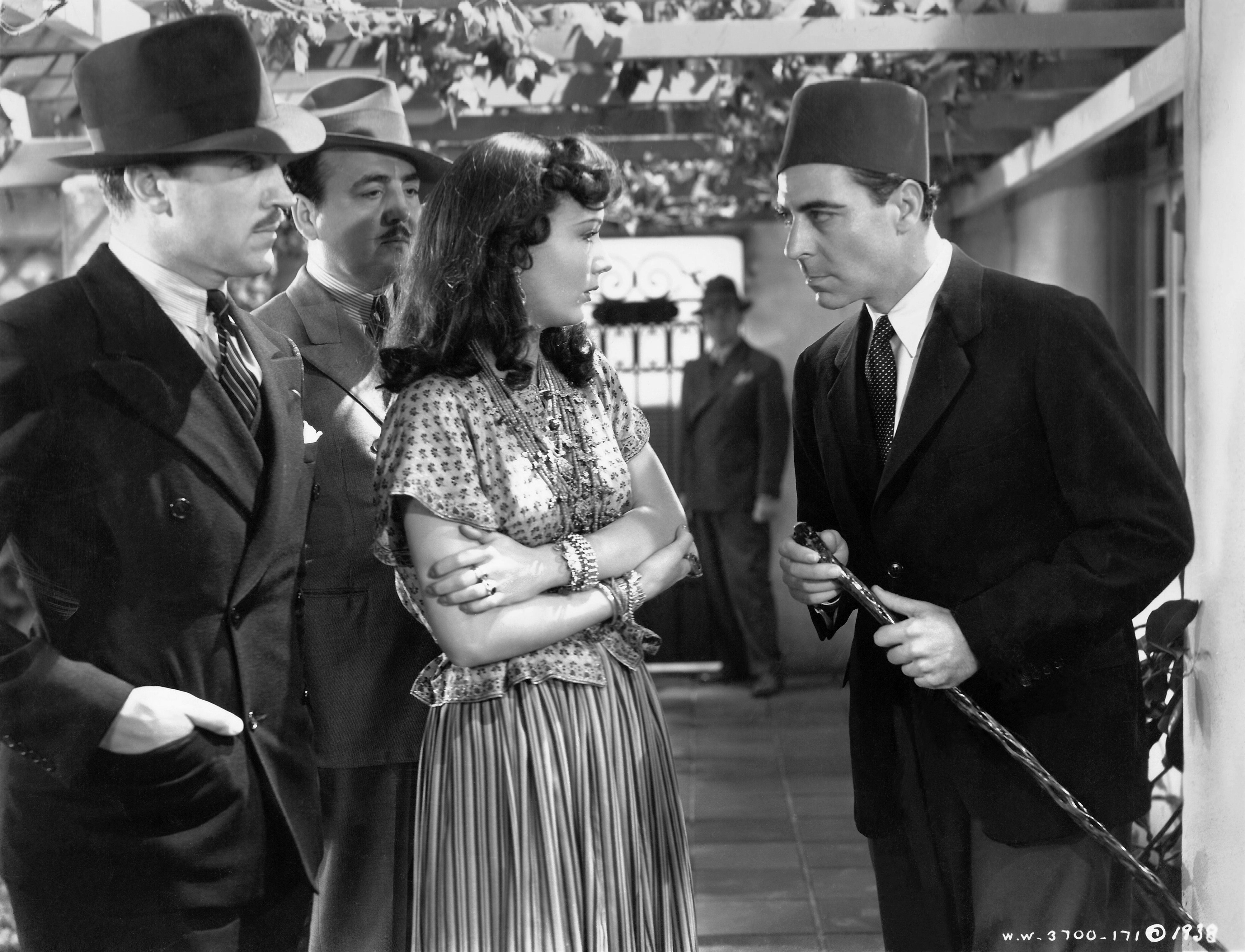 L. to R. : Unidentified, Gino Corrado, Sigrid Gurie & Joseph Calleia in Algiers